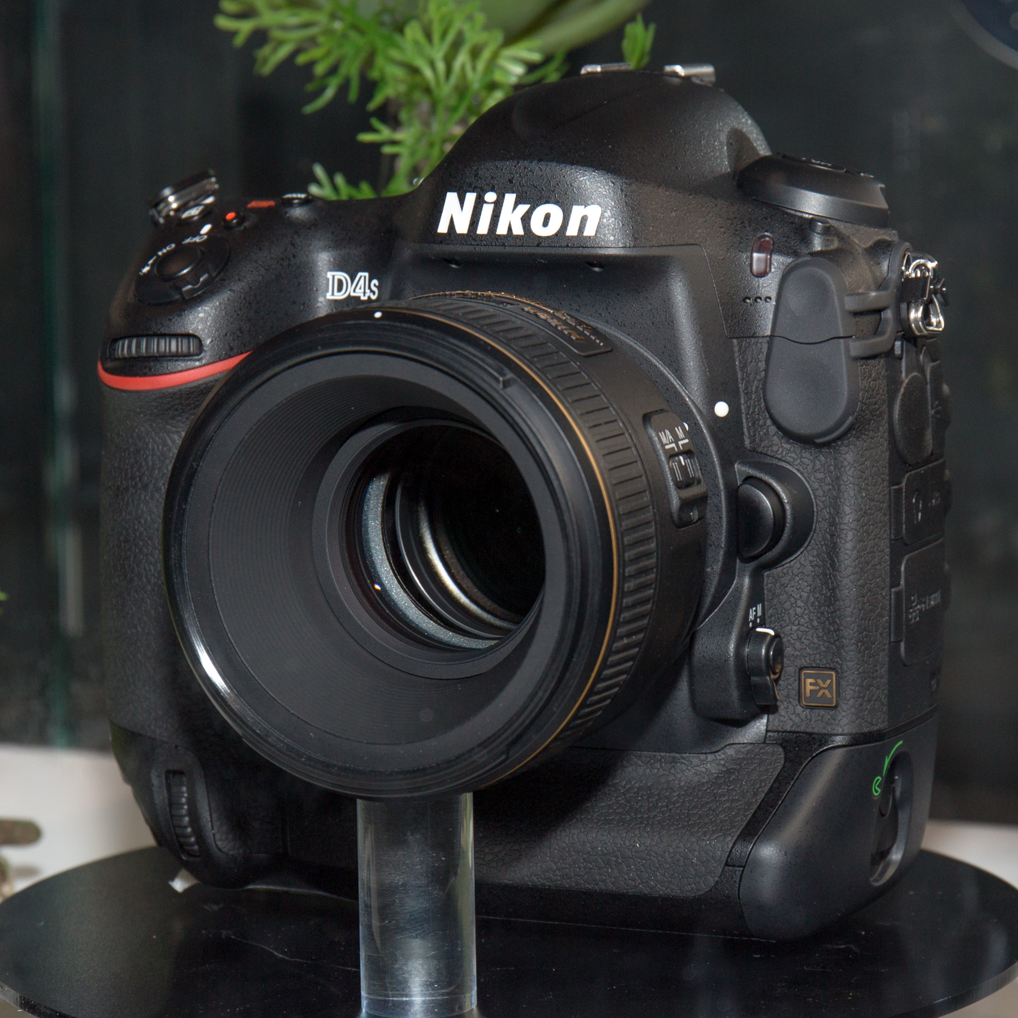 CP+ 2014: 2014 Nikon D4S (prototype)